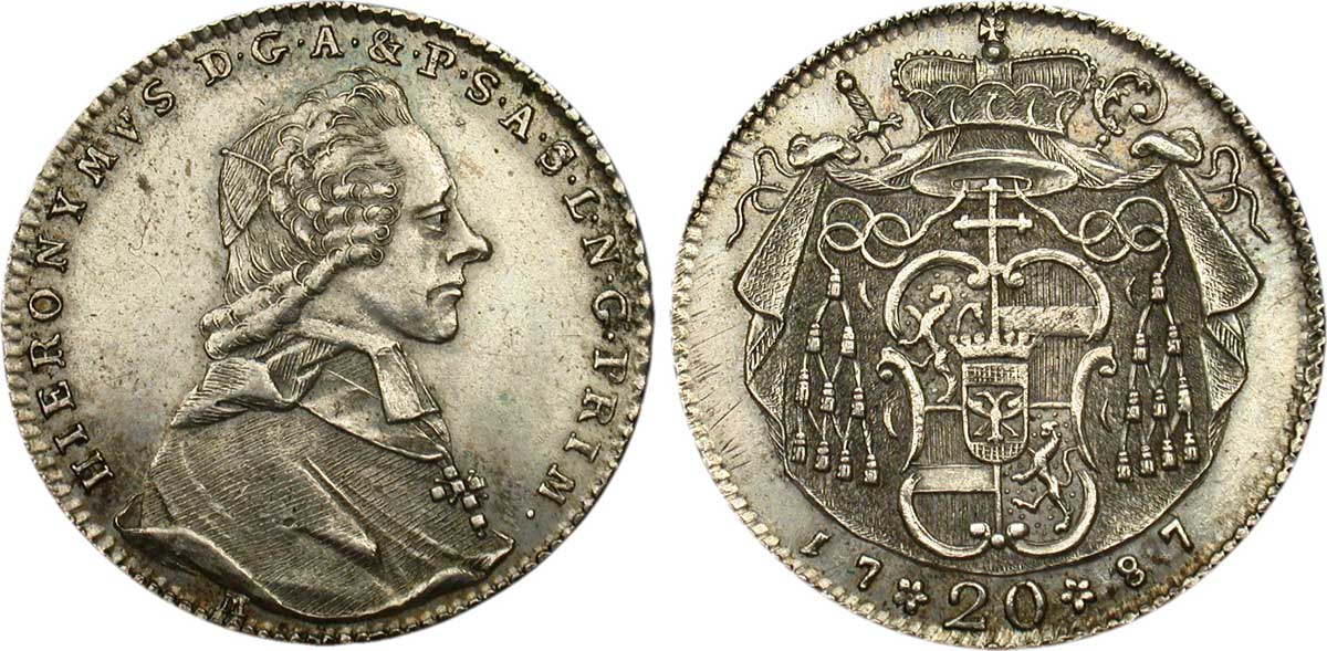 20 kreutzer de l'Archeveché de Salzbourg à l'effigie de Jérôme Colloredo, 1787. Colloredo est surtout connu pour avoir été le mécène de Mozart (1756-1791) avec lequel il ne s'entendait pas et qui rompit définitivement avec le prince évêque en 1781. En 1803, ses biens furent sécularisés.